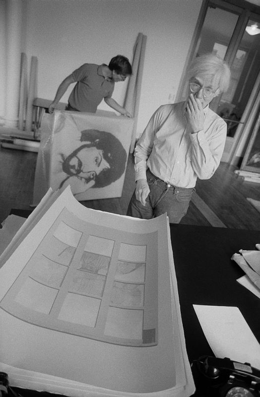 Andy Warhol is looking at the banana split of Thomas Dellert, 1980, photo taken by Bruno Ehrs